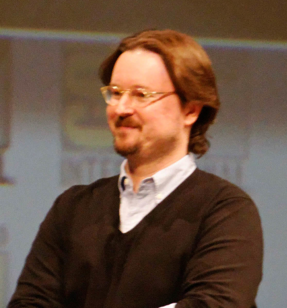 Matt Reeves at 2010 Comic-Con International